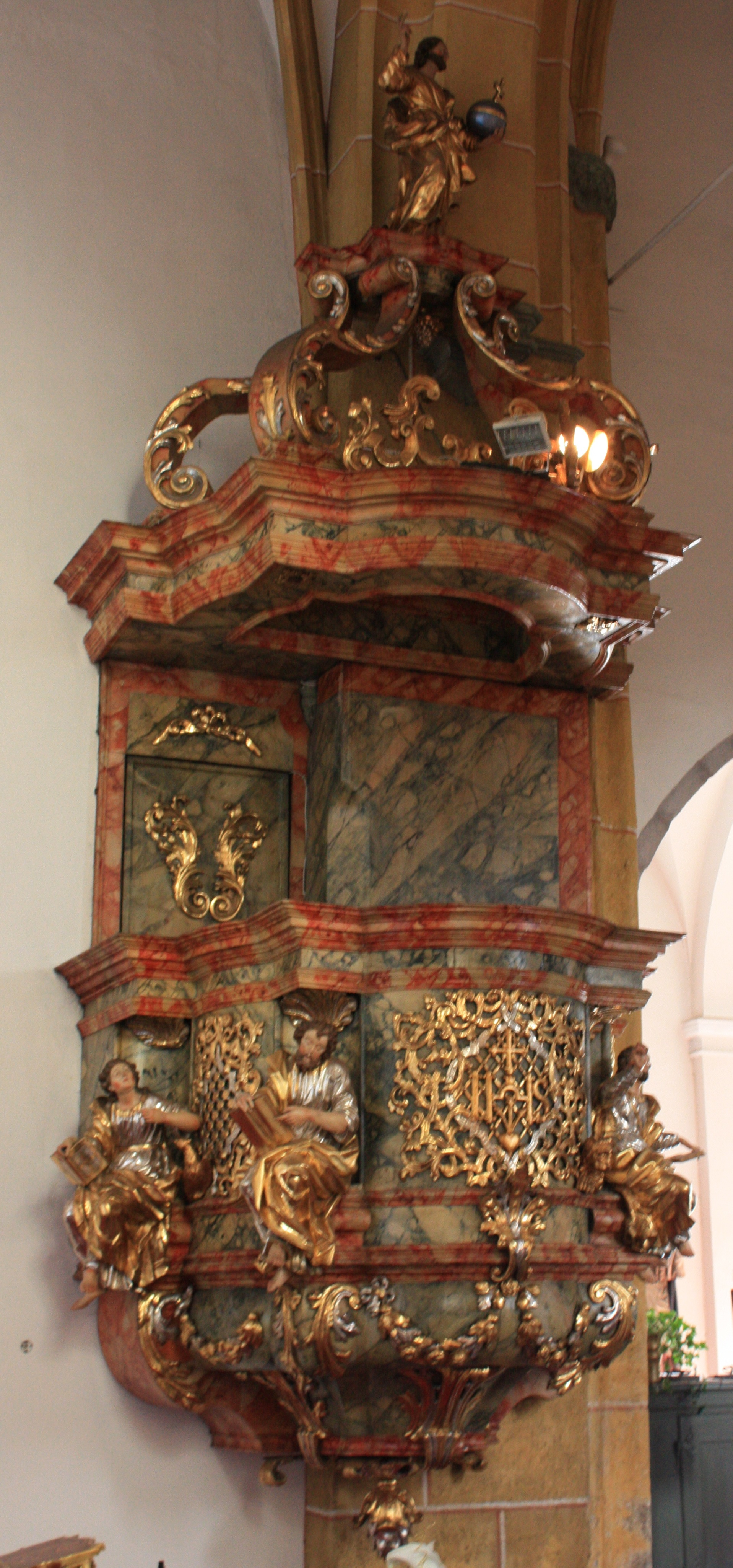 Parish church: Pulpit Locality:Kirchplatz, Sankt Veit an der Glan Community:Sankt Veit an der Glan